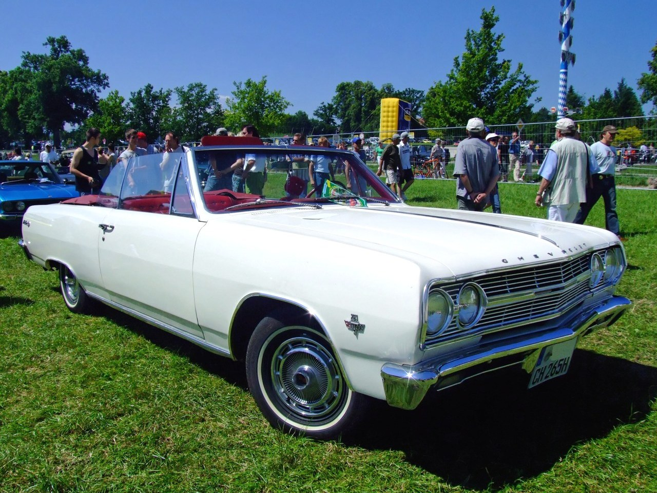 1965 Chevrolet Chevelle Malibu Convertible In Ermine White. Quelle: selbst fotografiert, 06/2007 Fotograf: Späth Chr.